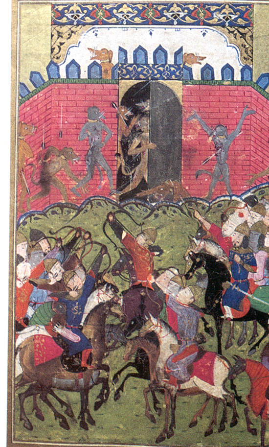 Alexander The Great fighting the dog-headed men. A miniature in indian manuscript